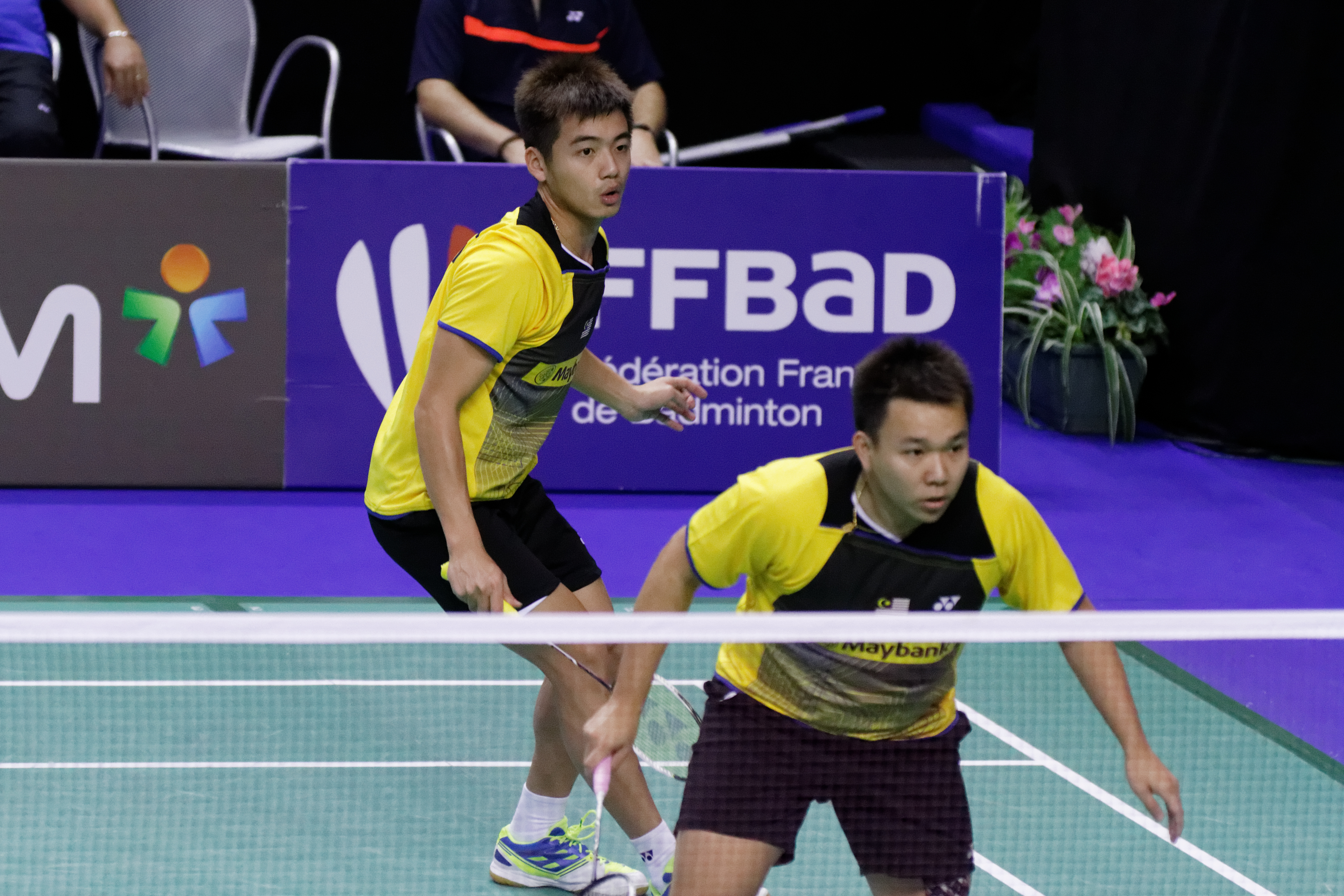 2013 French open. Men's doubles eightfinal. Chan Yun Lung and Lee Hei-chun vs Hoon Thien How and Tan Wee Kiong.